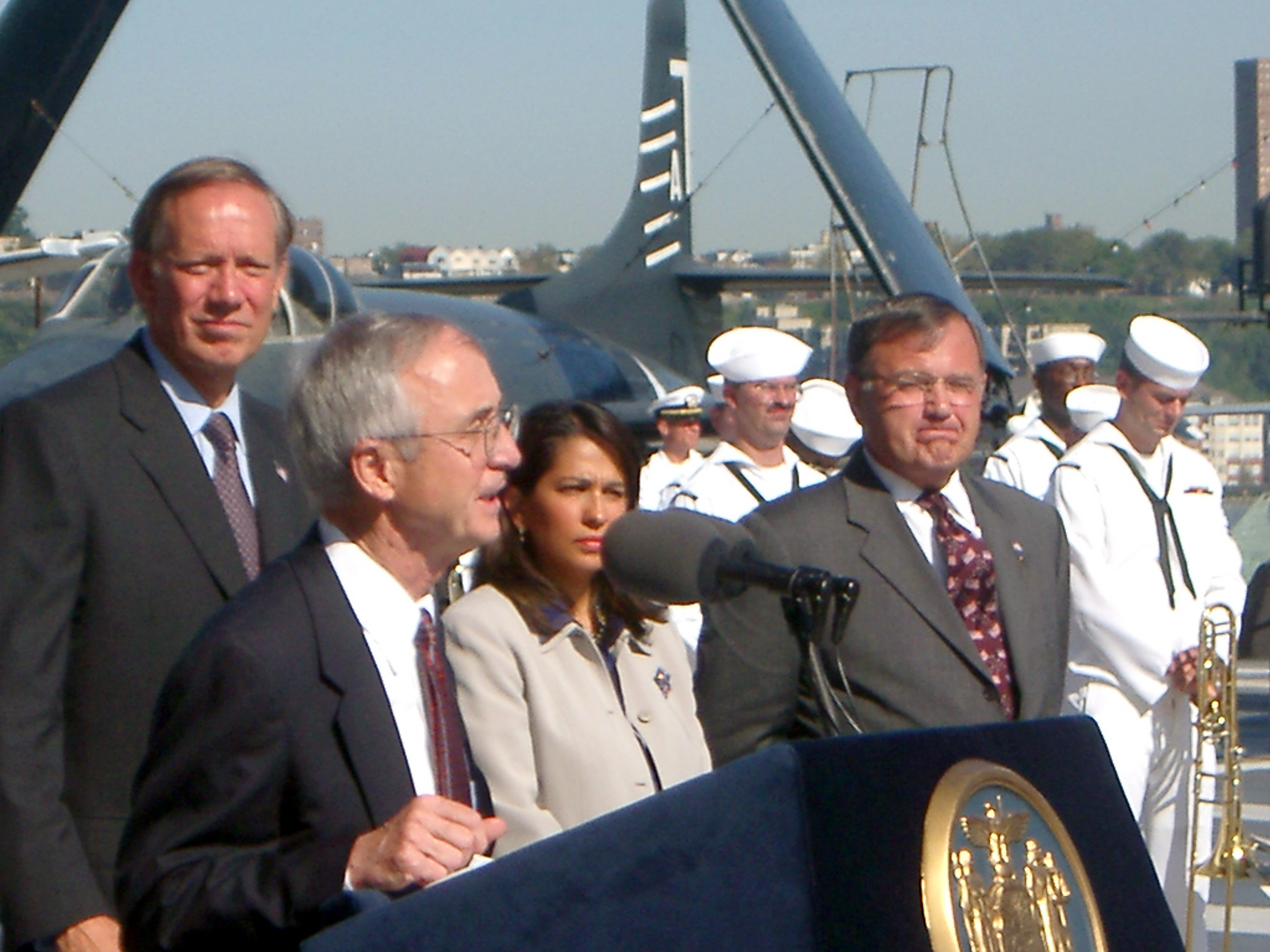 New York, N.Y. (Sep. 7, 2002) -- Secretary of the Navy Gordon England announced the naming of a planned amphibious transport dock ship, LPD-21, New York to honor the state, the city and the victims of Sept. 11. With the Secretary, from left, are New York Governor George E. Pataki, Deputy New York City Mayor Carol Robles-Romano, and Dr. Phil Dur, president of Northrop Grumman Ships Systems. The naming ceremony was held aboard the Intrepid Sea-Air-Space Museum in Manhattan and was attended by families of victims of 9-11, representatives from the New York Police Department, the Fire Department of New York, and veterans from throughout the state of New York. U.S. Navy photo by Capt. Kevin Wensing. (RELEASED)